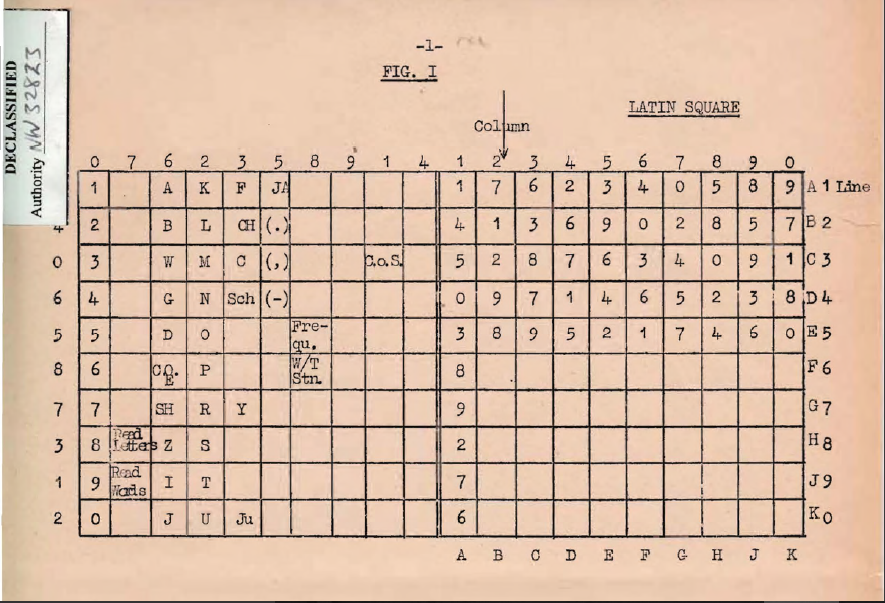 Figure I of TICOM document I-19d Report on Interrogation of KONA 1 at Revin, France, June 1945. Image is of PT-39 recyphering table.